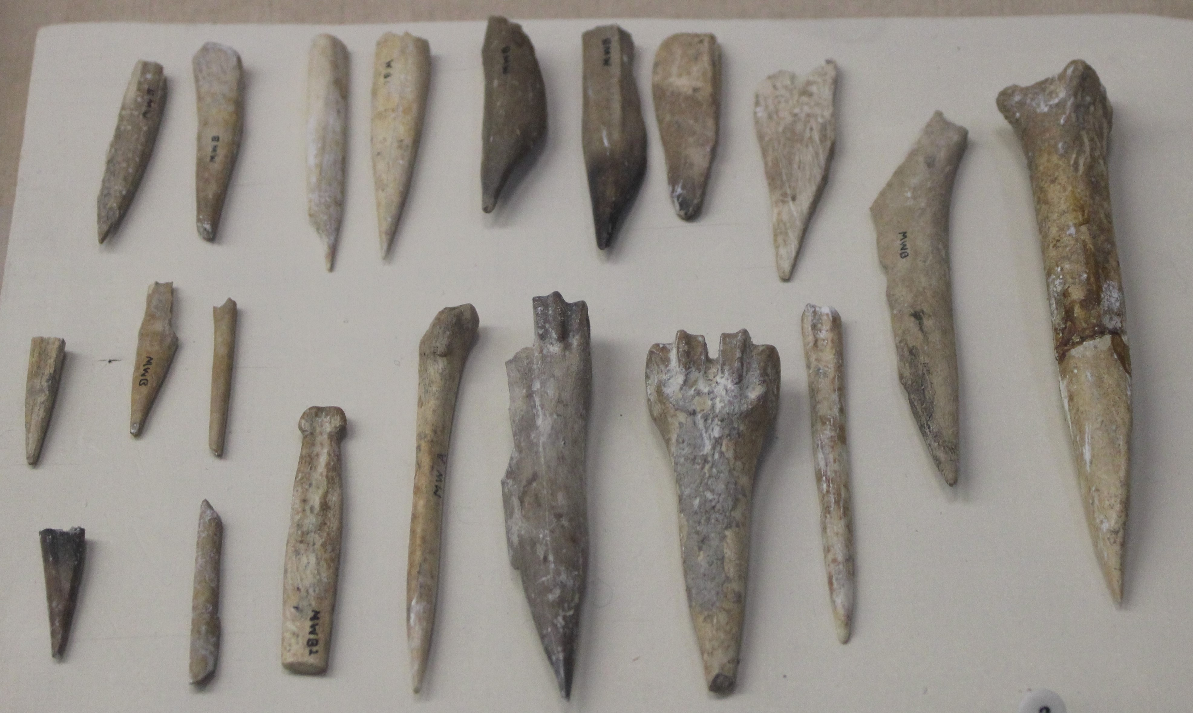 Bone objects: punches. From Mugharet el Wad (Israel), level B2. Excavations by Dorothy Garrod. Dated from the Early Natufian, c. 14500-13500 BP. Musée d'archéologie nationale.